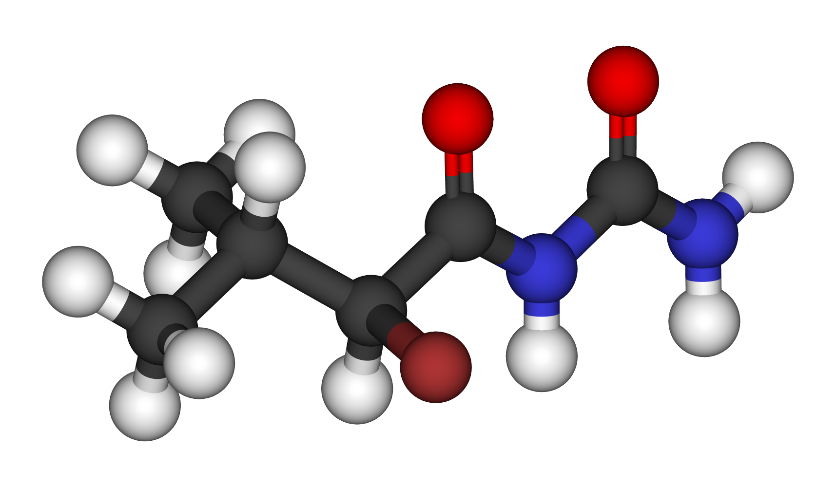 Bromovalerylurea